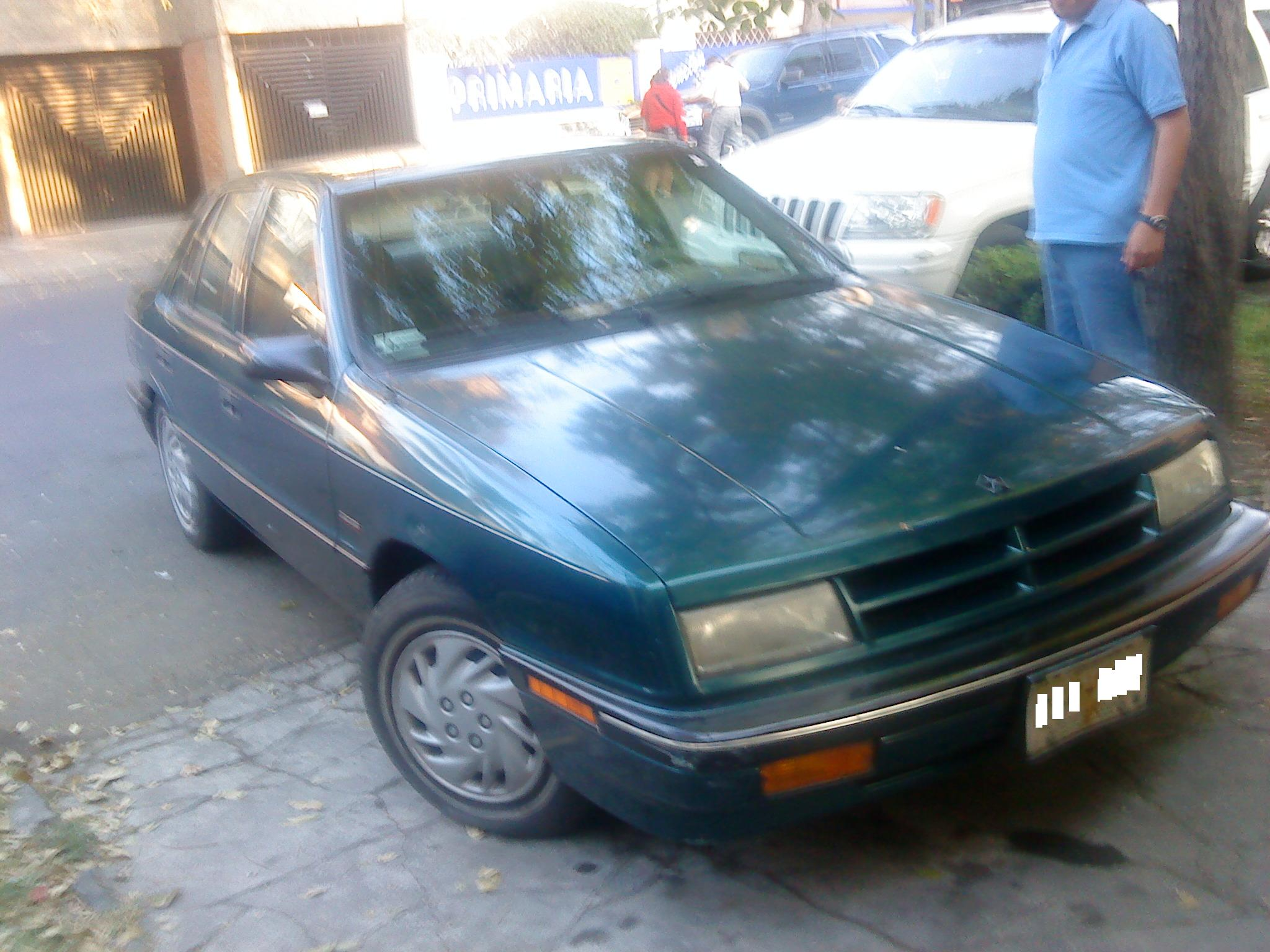 گیلکی: A 1993 4 door Chrysler Shadow Típico in Mexico City